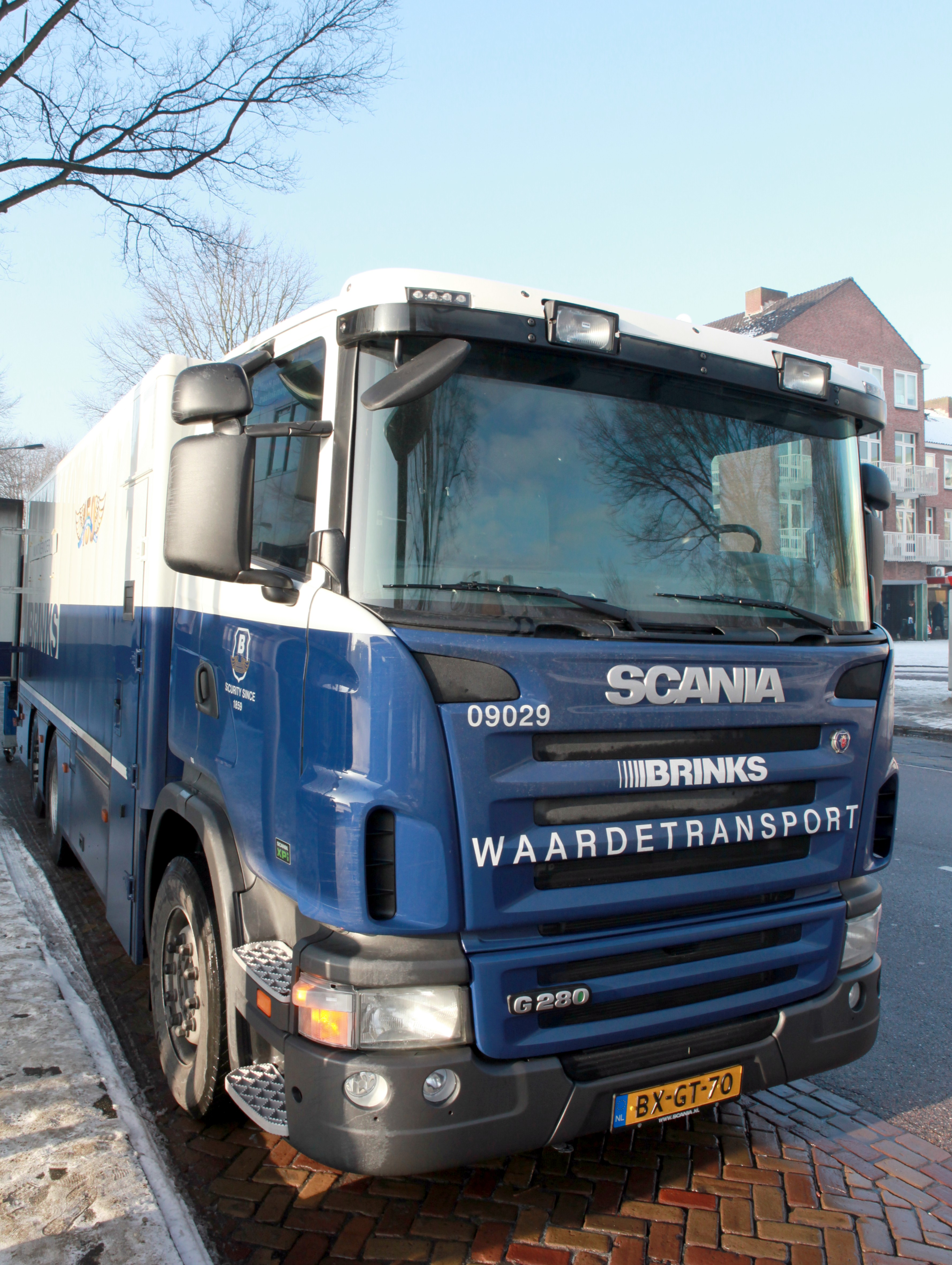 Scania G 280 Brinks Waardetransport.